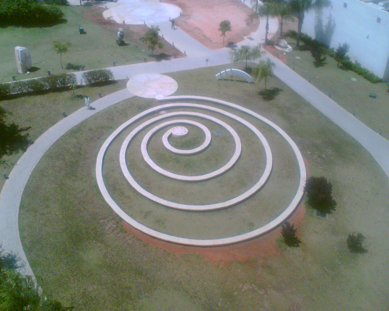 A spiral at then Rabin Medicak center, Petah Tikva